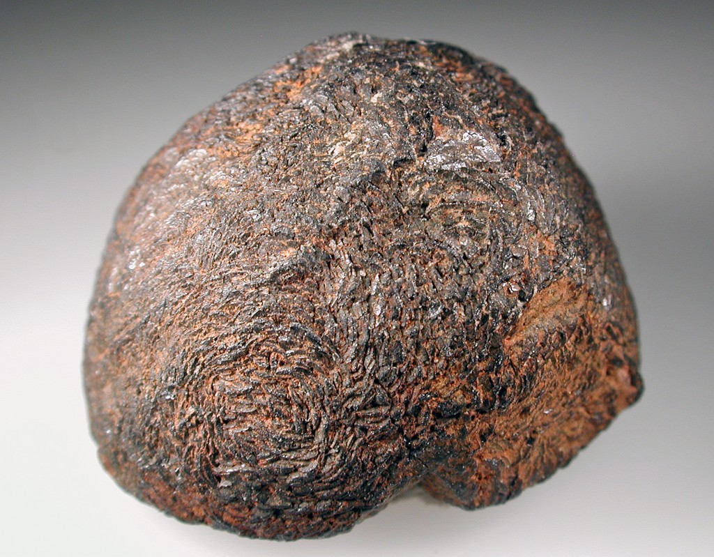 Hemispheric agregate of scandian ixiolite crystals, 16 x 15 x 11 mm. From Ibrahim Jameel, 2012. K. Nash specimen and photo. Locality: Namivu Pegmatite (Namivo Pegmatite), Alto Ligonha District, Zambezia Province, Mozambique